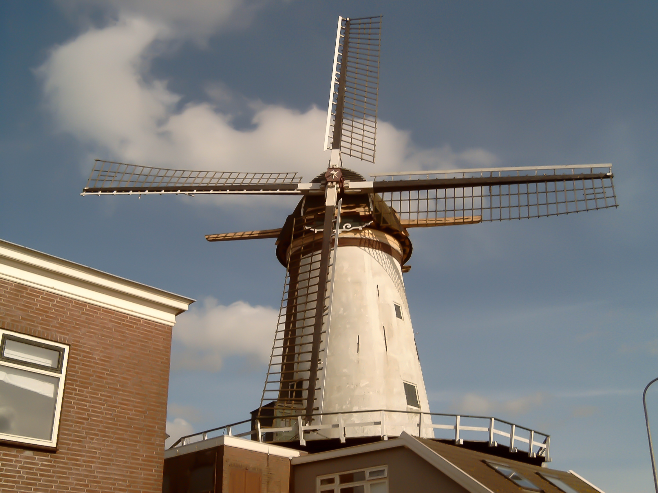 Bodegraven, mill "de Arkduif"